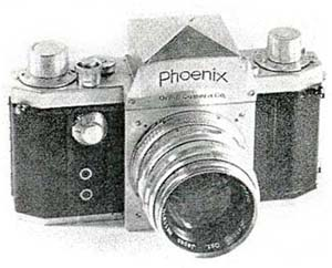 miranda camera study model.:Phoenix.